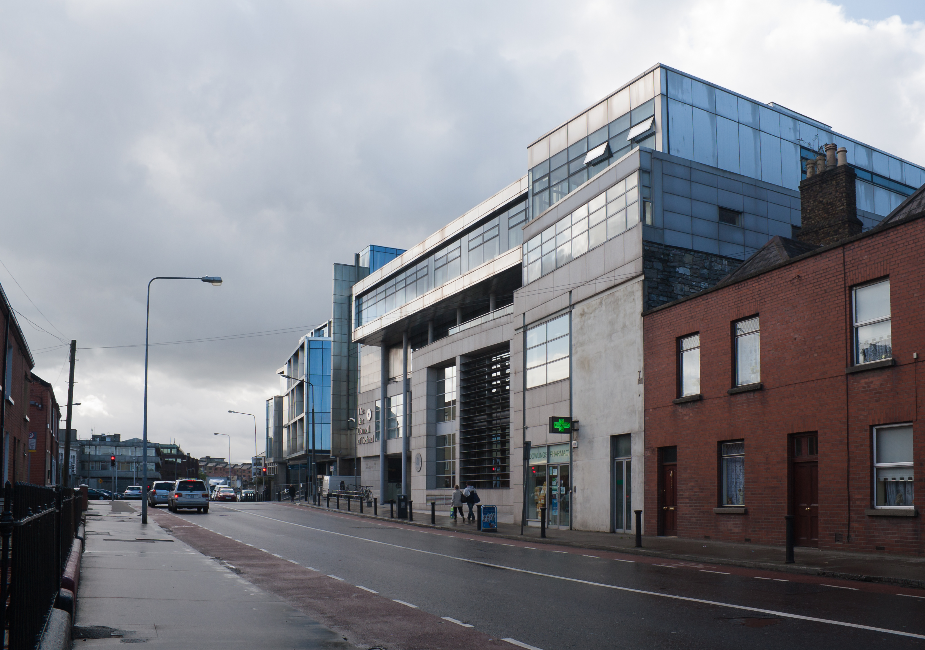 Church Street with the Bar Council of Ireland, looking south.